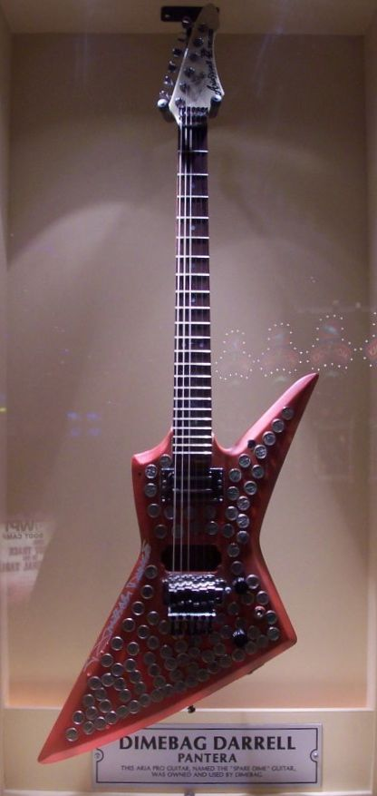 Guitar from Dimebag Darrell, guitarist of former heavy metal band Pantera, exposed at the Hard Rock Casino in Florida.